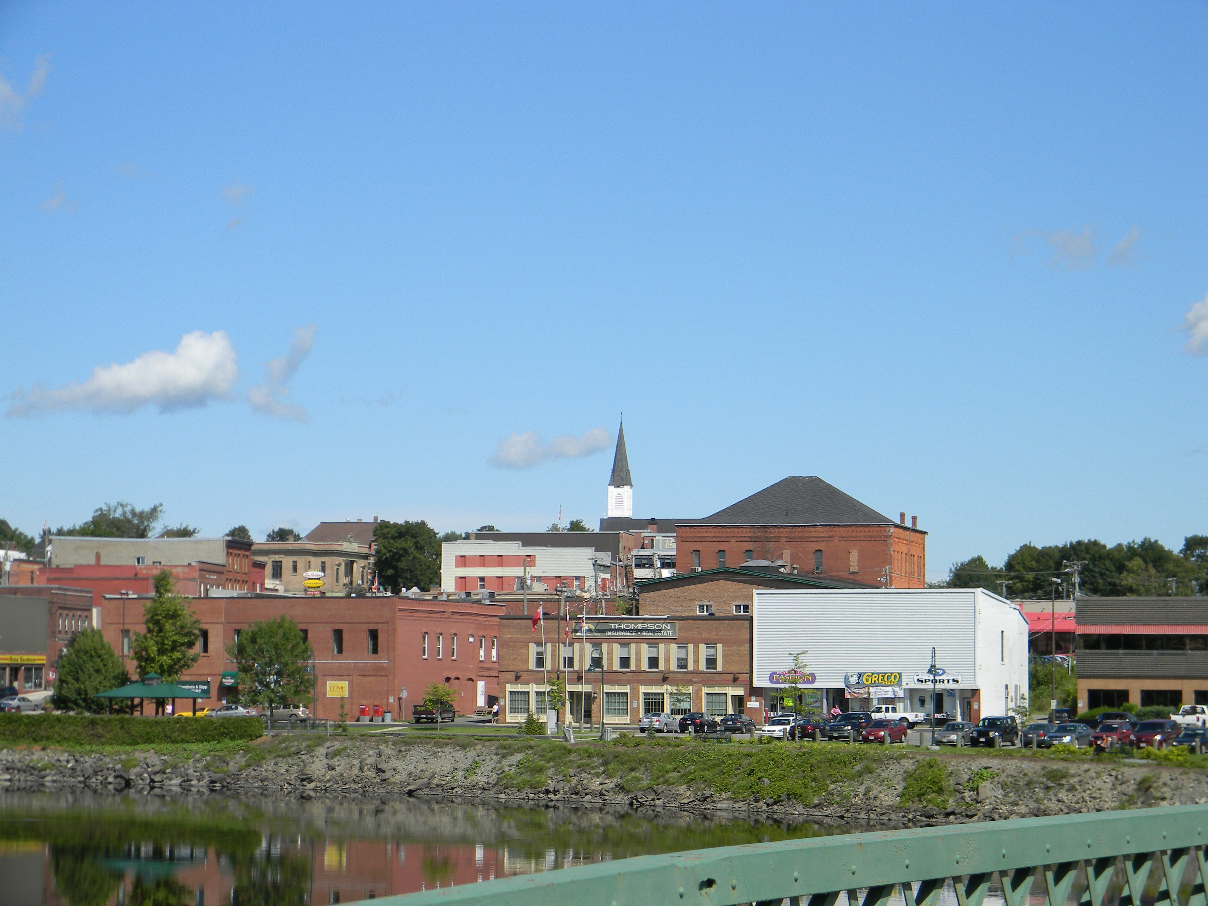 Skyline of Woodstock, NB